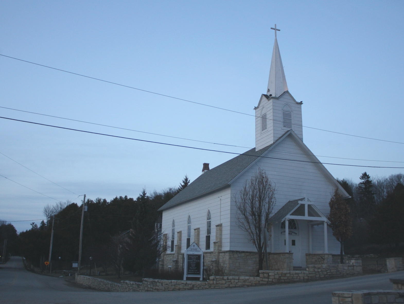 The Free Evangelical Lutheran Church-Bethania Scandinavian Evangelical Lutheran Congregation in Door County, Wisconsin, listed on the National Register of Historic Places.